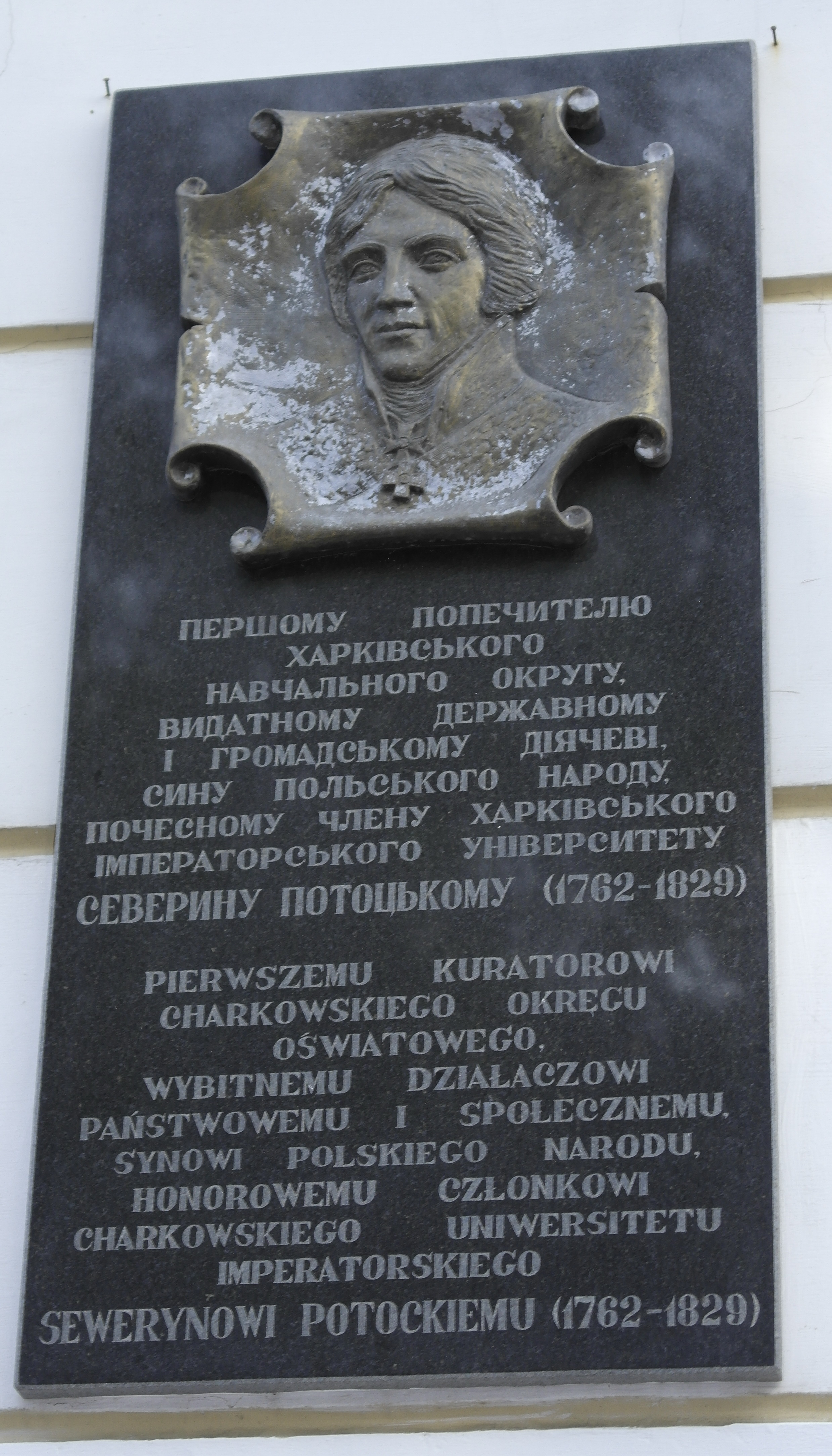 Memorial plaque for Seweryn Potocki on the wall of A. M. Gorky Central Scientific Library building in University street, former Kharkiv Emperor University general library, Kharkiv, Ukraine